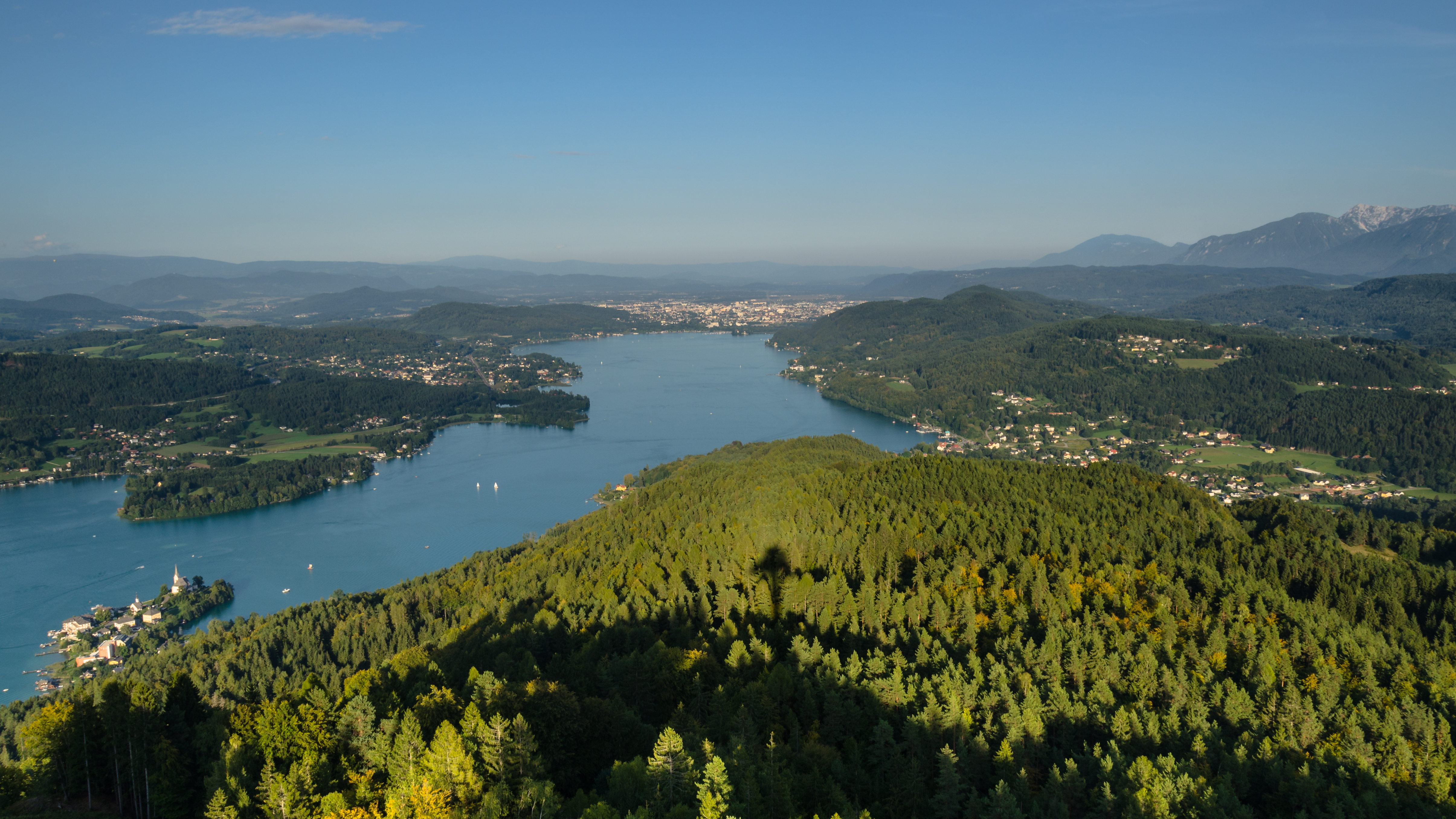 View from the former tower on Pyramidenkogel towards Klagenfurt